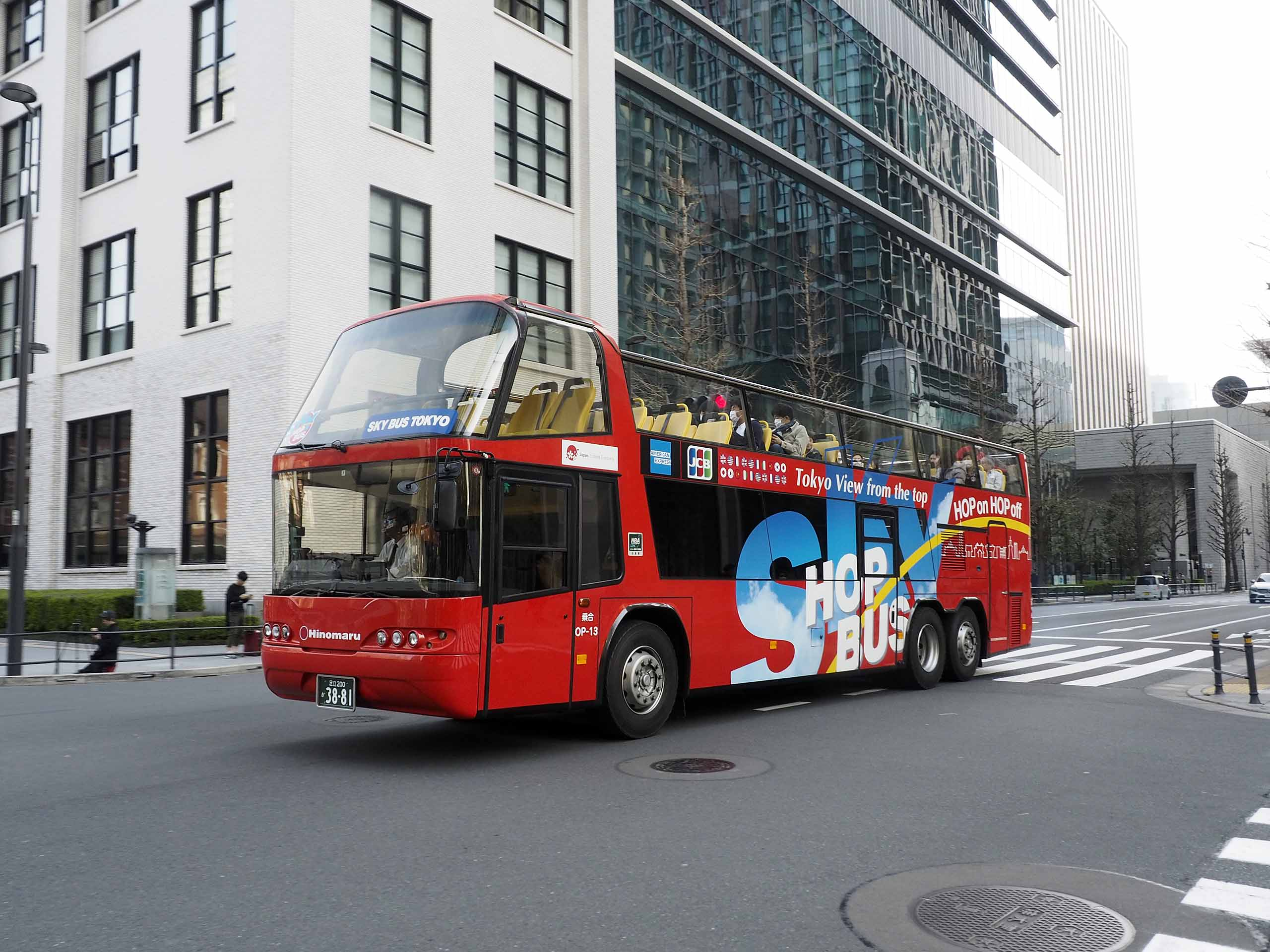 Fleet of Sky Bus Tokyo, operating as Sky Hop Bus, route bus for sightseeing in Tokyo by Hinomaru Jidosha Kogyo. Model: Neoplan N122/3 Skyliner License plate:TKA200 KA3881 Place: Marunouchi, Chiyoda Ward, Tokyo Japan